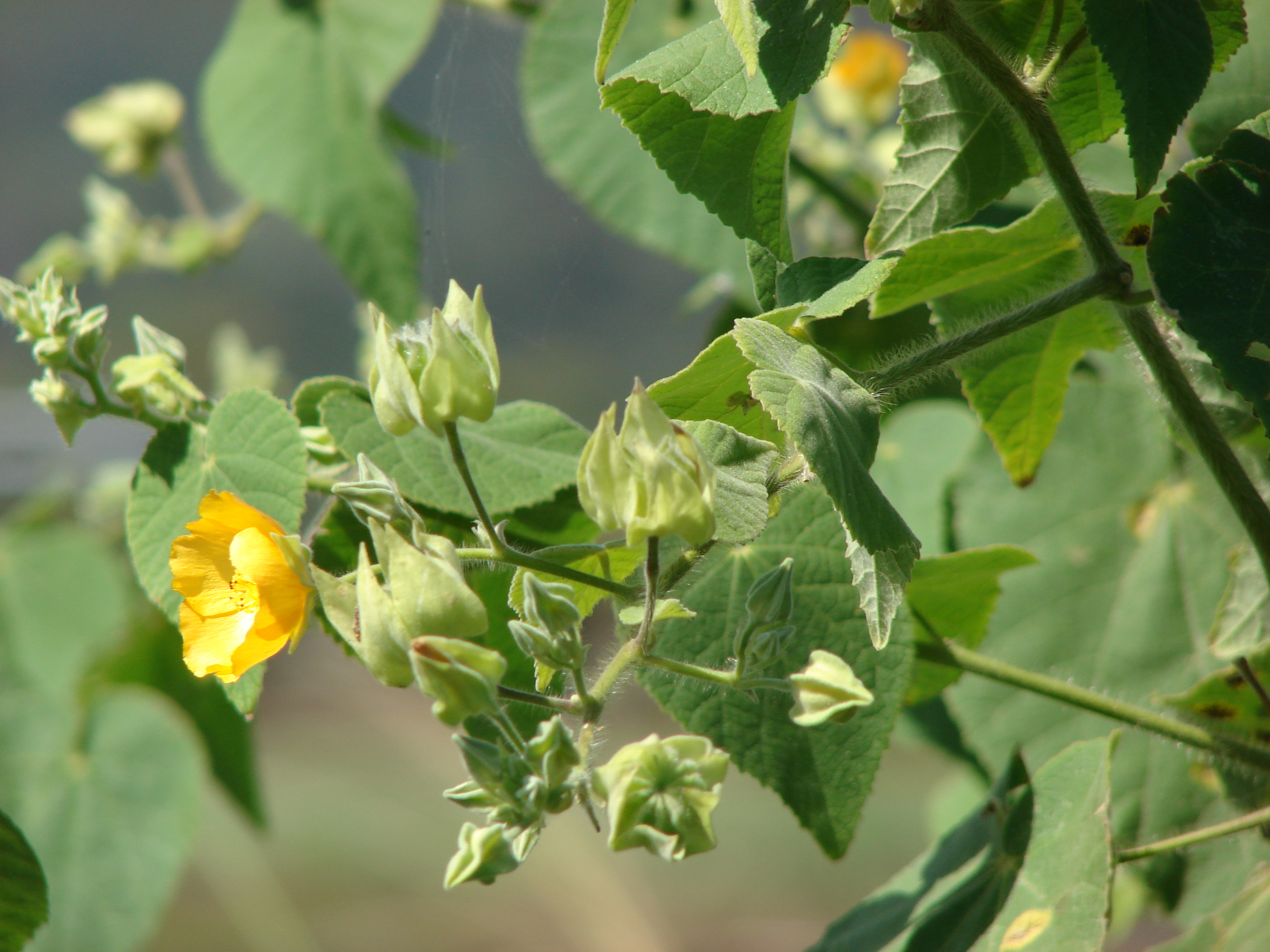 Abutilon grandifolium (flowers and leaves). Location: Maui, Waihee